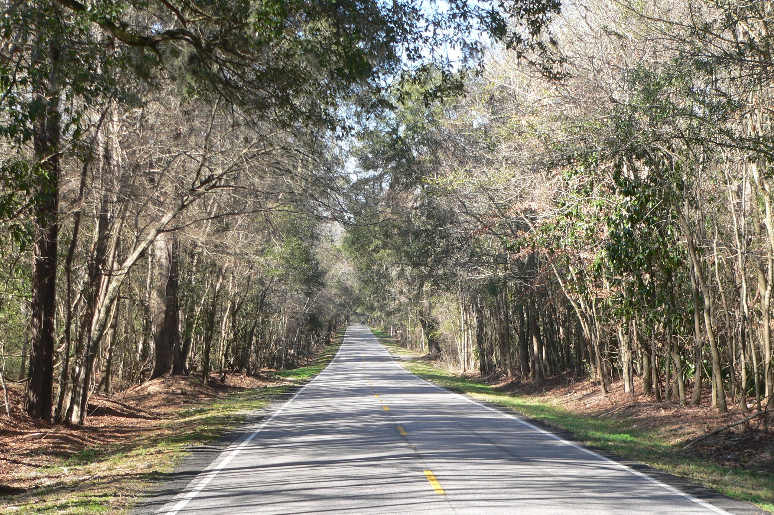 Ashley River Road (South Carolina Highway 61), 2.9 miles north of its junction with Bees Ferry Road. Camera is facing generally northward.